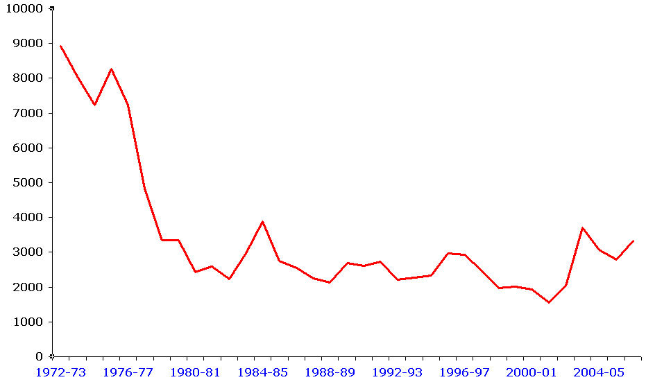 A graph showing Hereford United's average home league attendances since the 1972-73 season